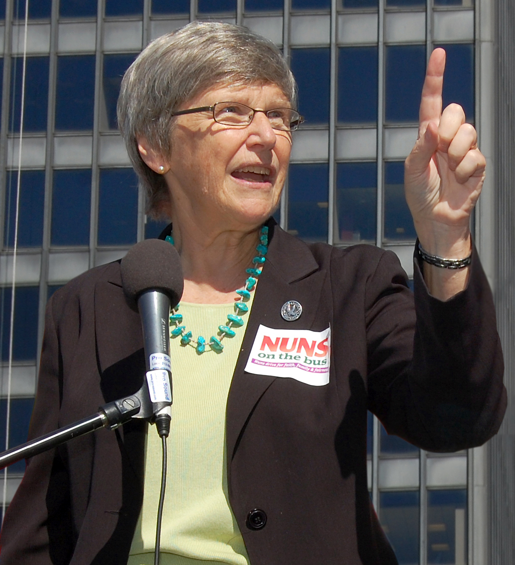 Sister Simone Campbell of "Nuns On The Bus" speaking in lower Manhattan - the Whitehall / South Ferry terminal. This was part of a "Nuns On The Ferry" event. Shortly after this speech Campbell and a contingent of nuns took the ferry to Staten Island where they spoke a second time, on the steps of Borough Hall.